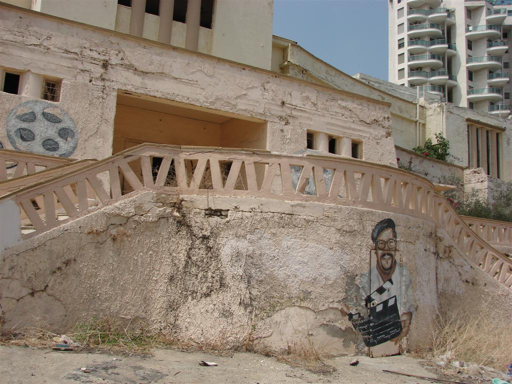 Elizabeth Hotel in Tiberias. The wa;; pantings done by Hannah Lerner (Rubinstein)